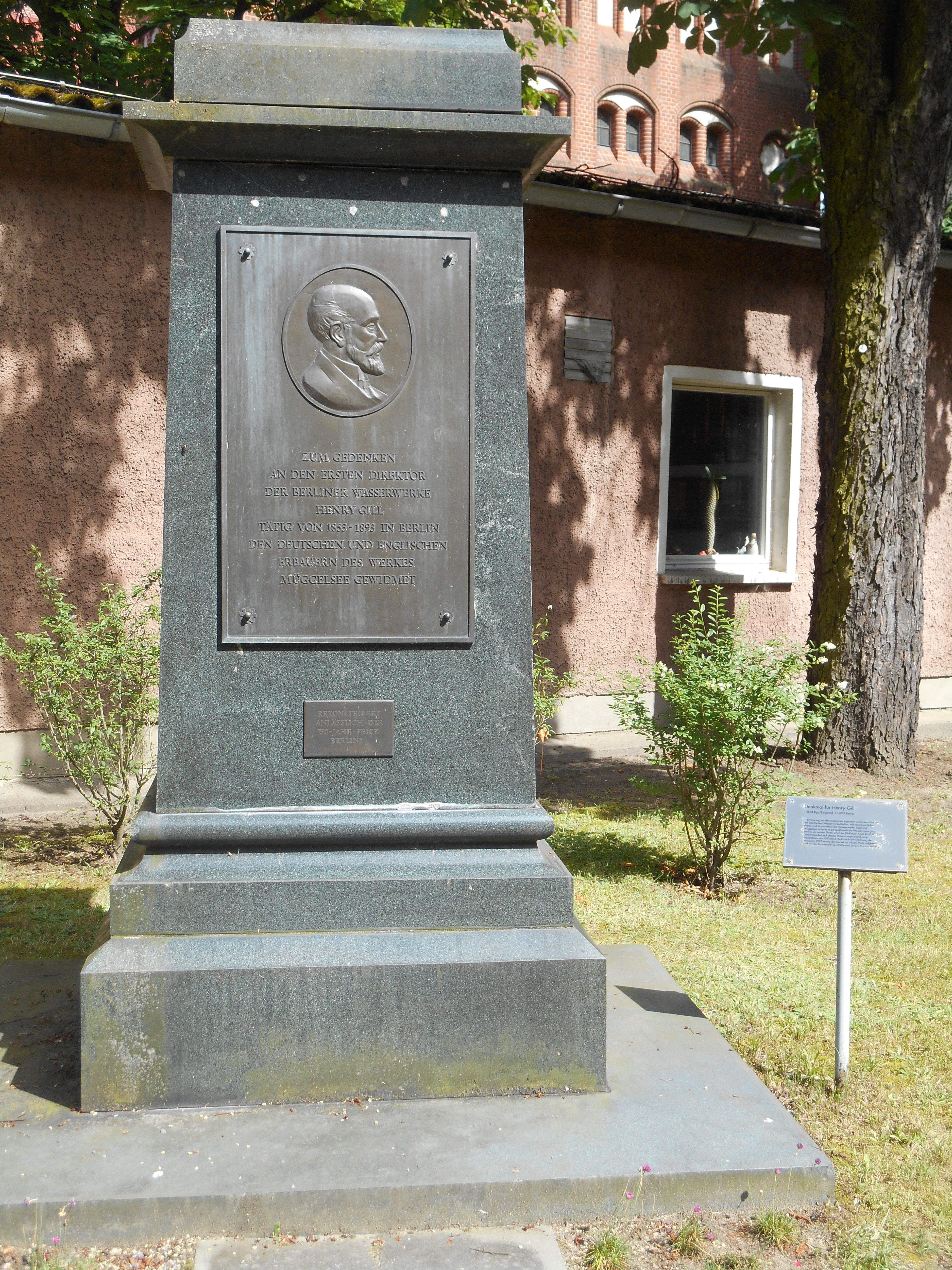 Memorial for Henry Gill (1824-1893) in Berlin-Friedrichshagen, Berlin-Köpenick, Berlin (Germany)